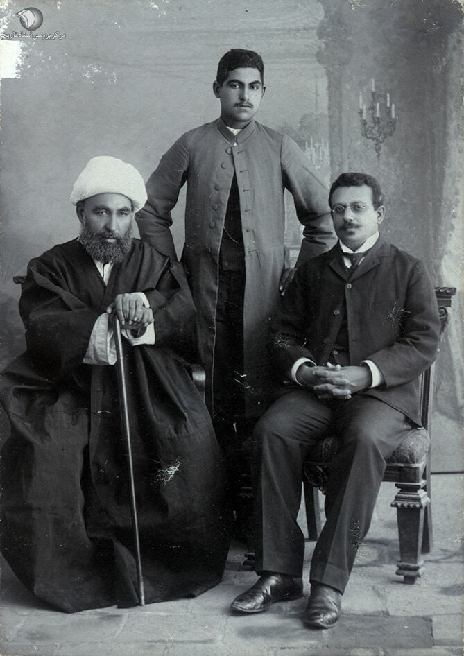 Ardeshir Reporter (right) and the Maliku'l-Mutakallimin (left).